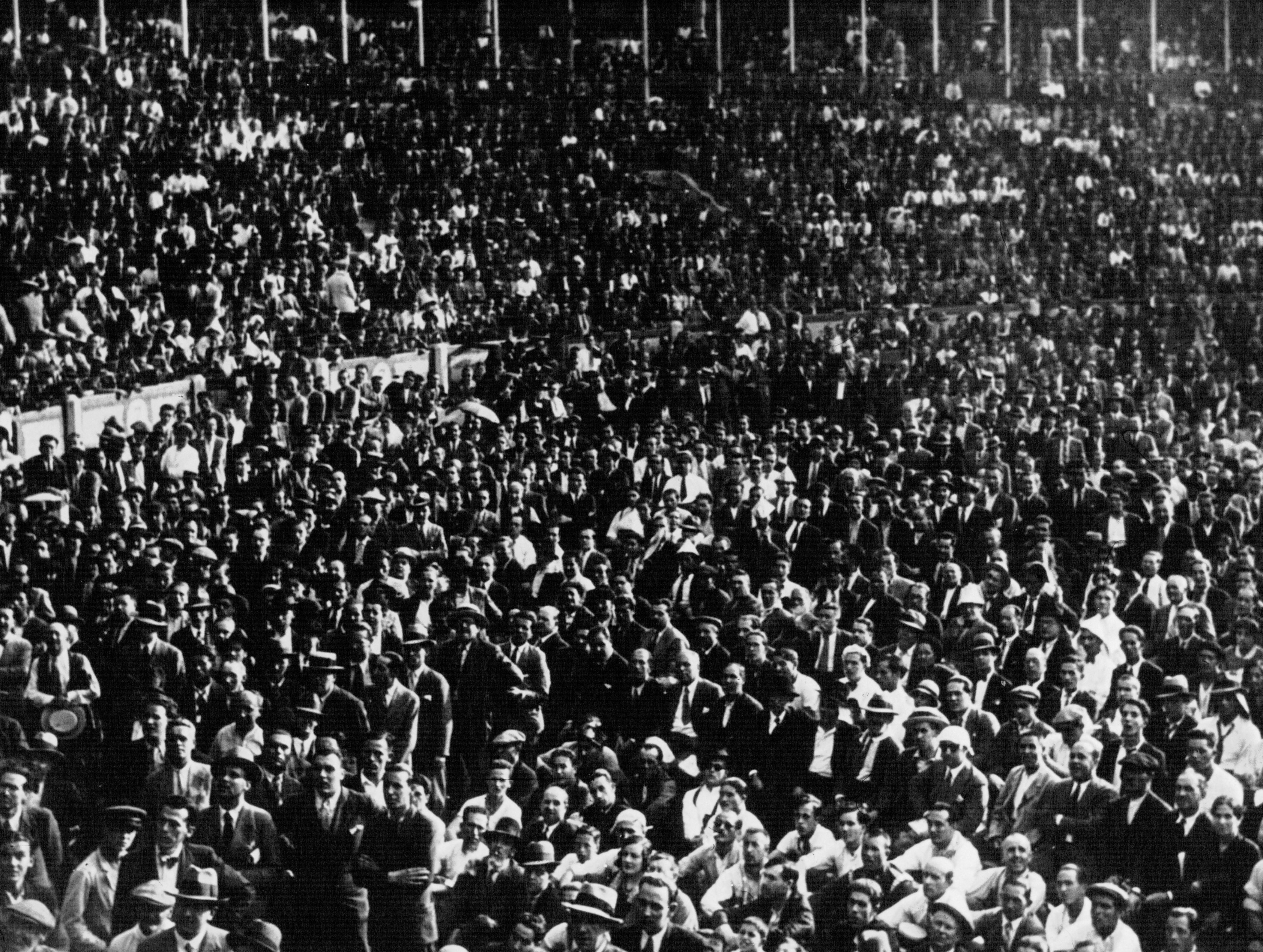 Demonstration in Spain against the Catalan Statute of Autonomy (1932)